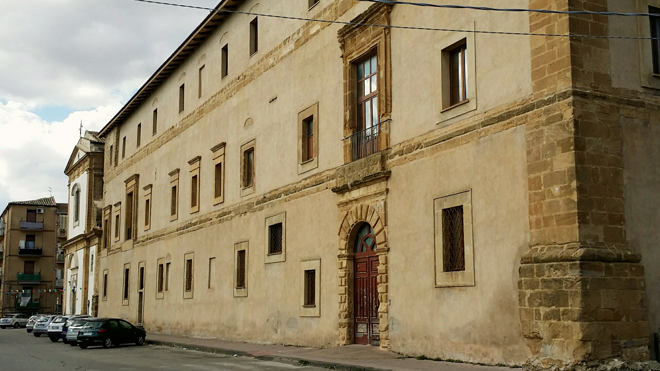 Former Benedictine monastery of Santa Flavia in Caltanissetta, Italy; on the left you can see the facade of the church of Santa Flavia